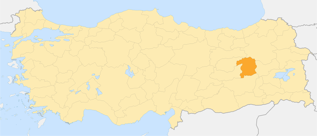 Shows the location of the province Bingöl in Turkey